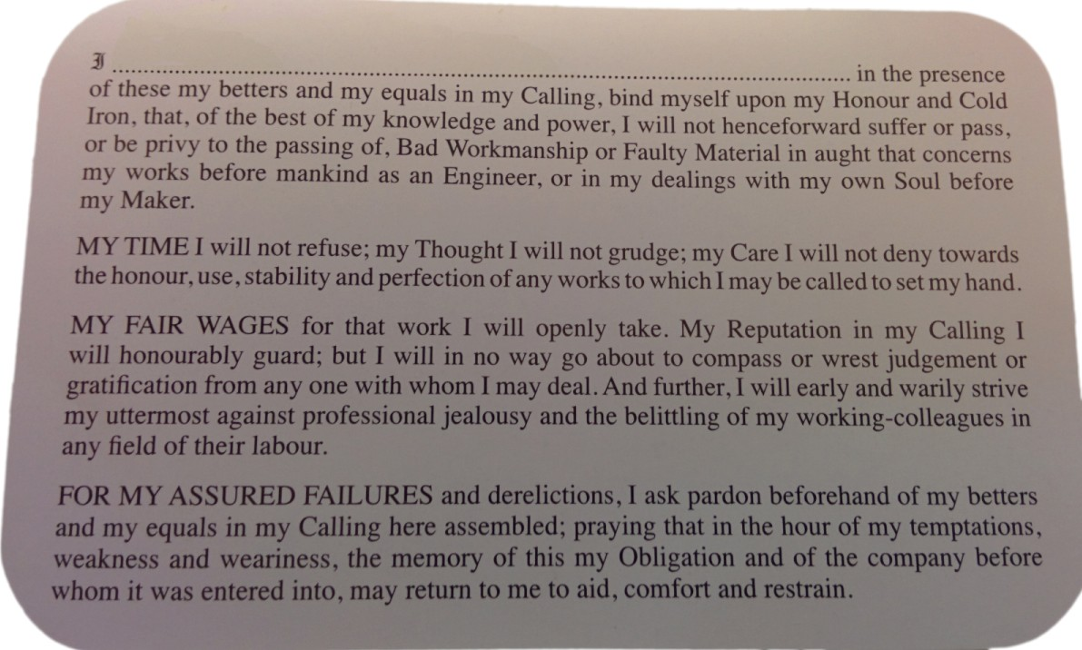 The obligation spoken by Canadian Engineers at the Ritual of the Calling of an Engineer.